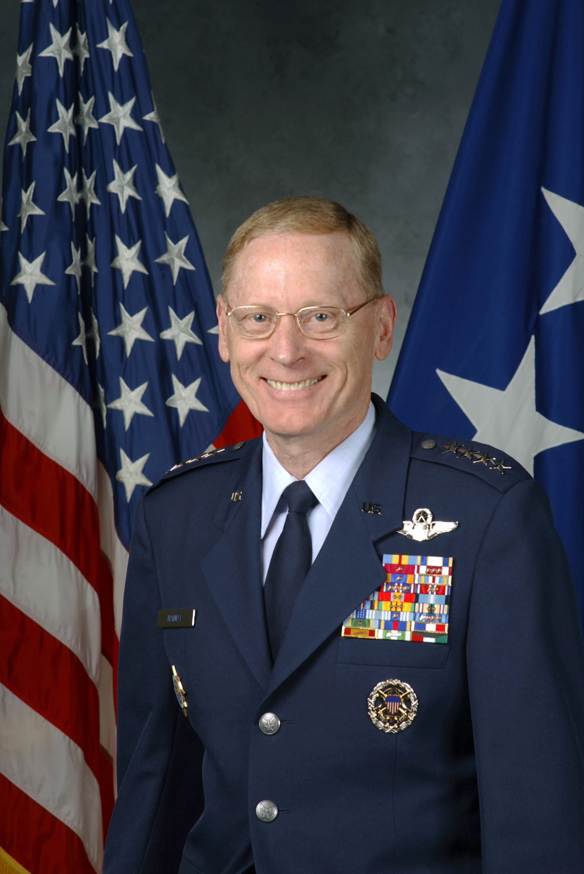 General John W. Handy source